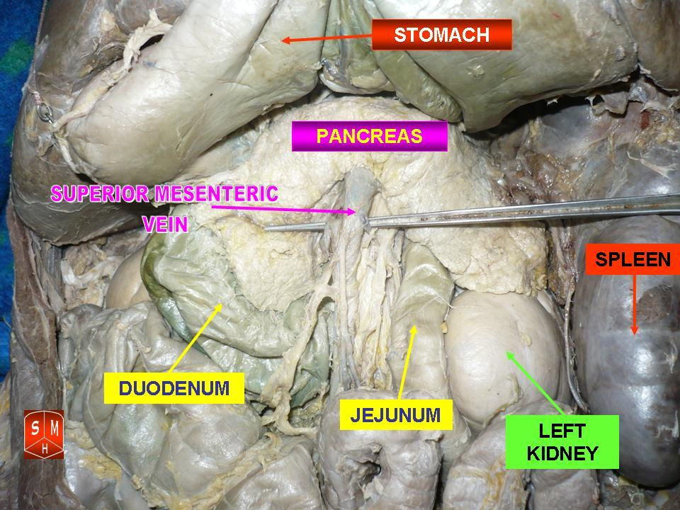 Pancreas in situ